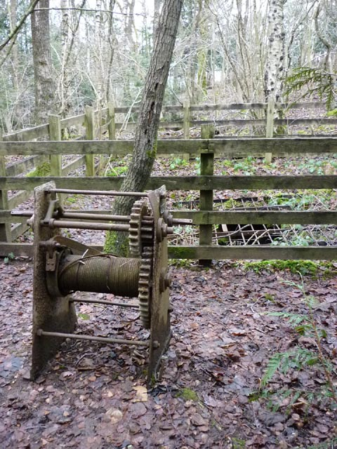 The Dog Hole